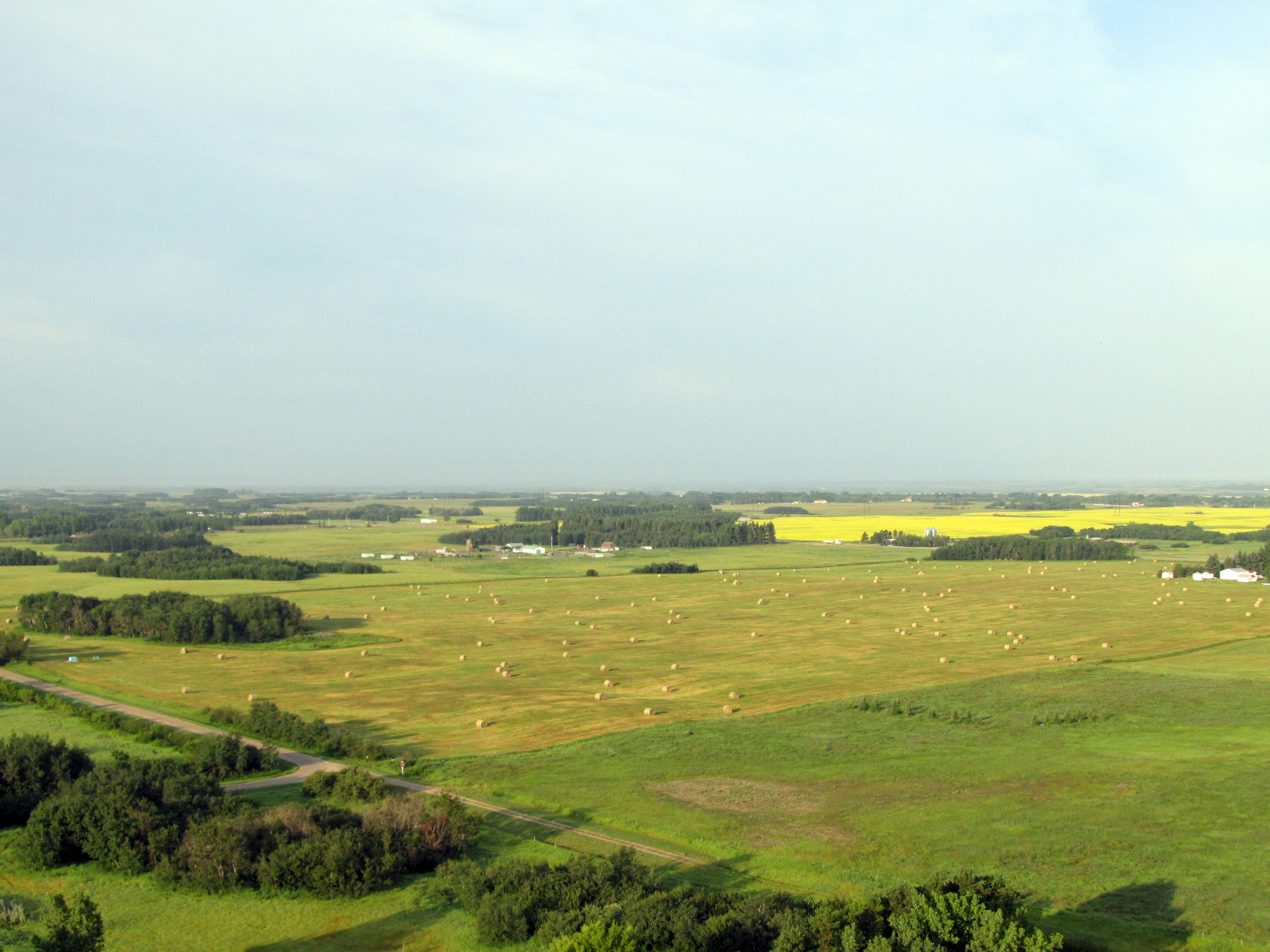 Field of Hay